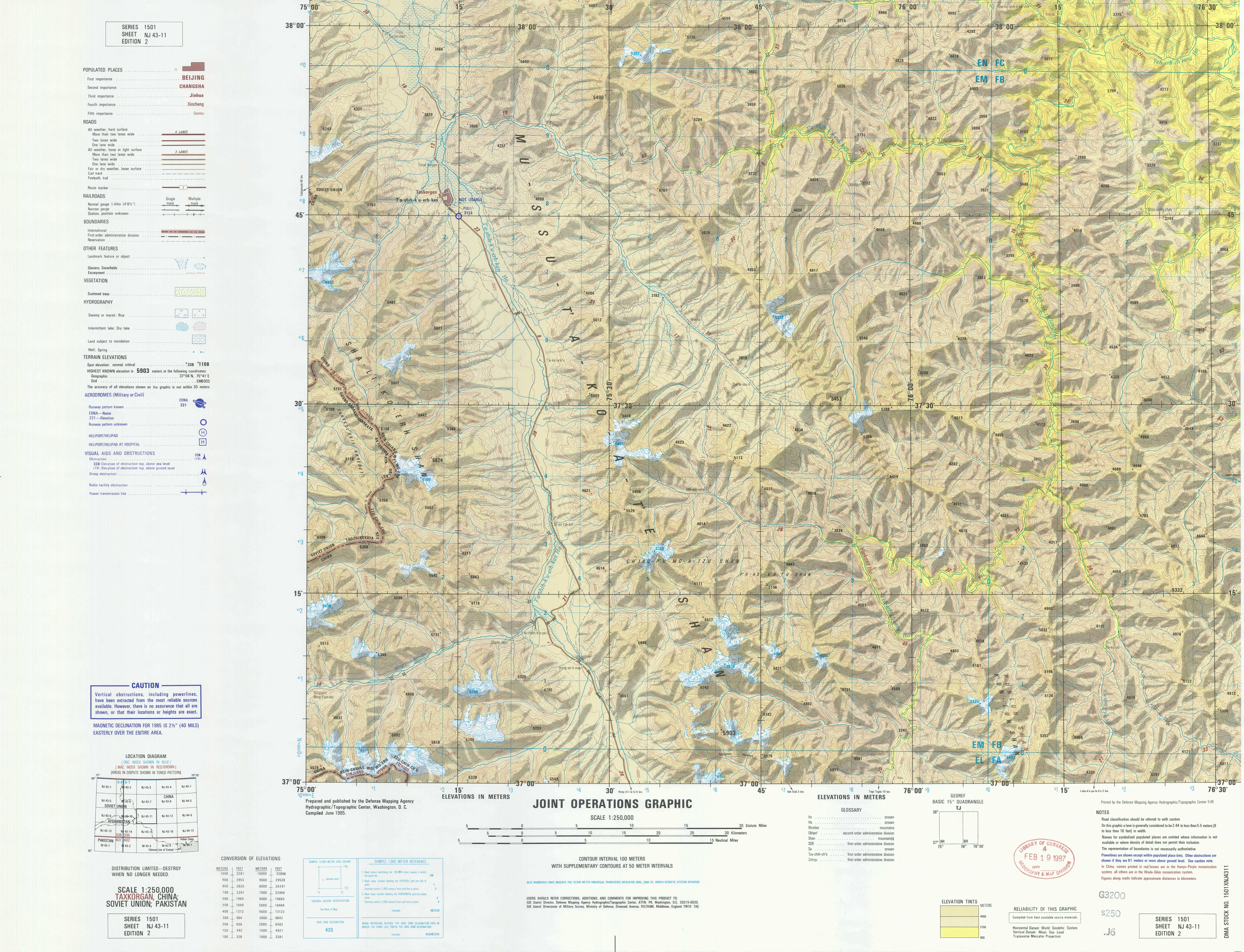 NJ-43-11 Taxkorgan, China; Soviet Union; Pakistan.jpg